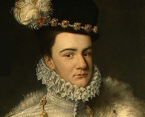 Hercule François de France (1555-1584), Duc d'Alençon, d'Anjou, de Touraine, de Brabant et Château-Thierry.